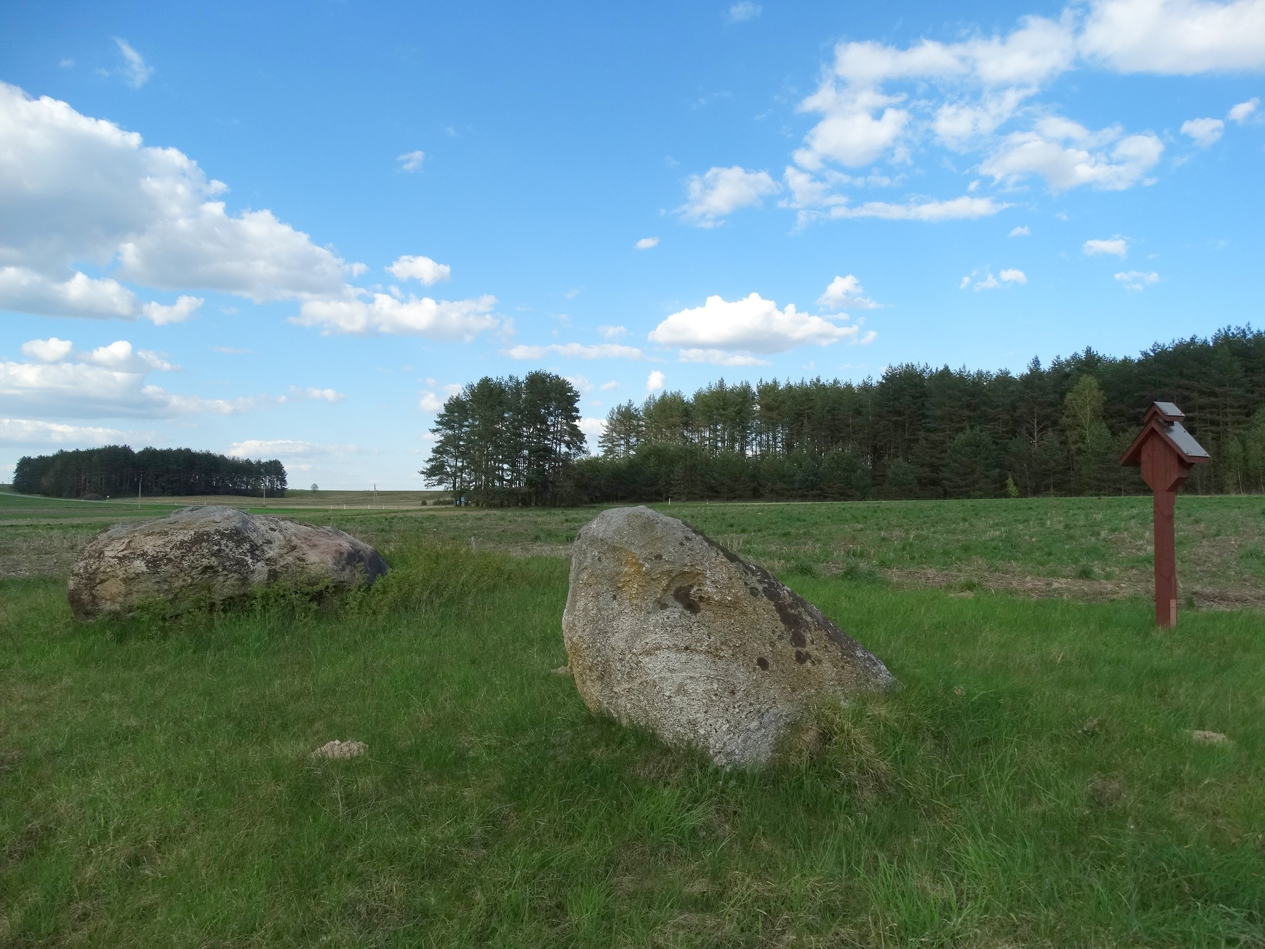 Stones in Didžiuliai, Šalčininkai District, Lithuania